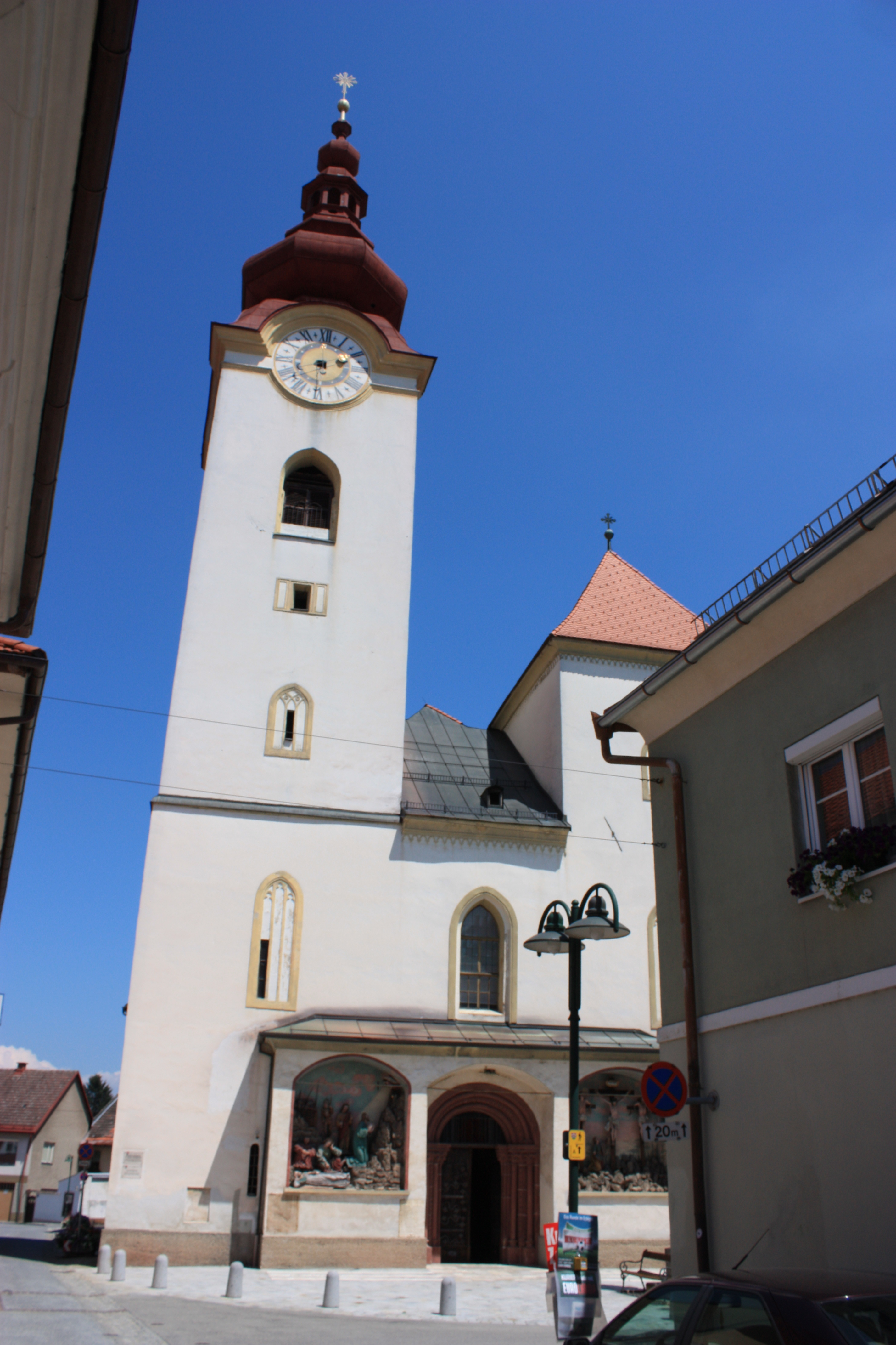 Parish church "Maria Magdalena" Street:Kirchengasse Community:Völkermarkt